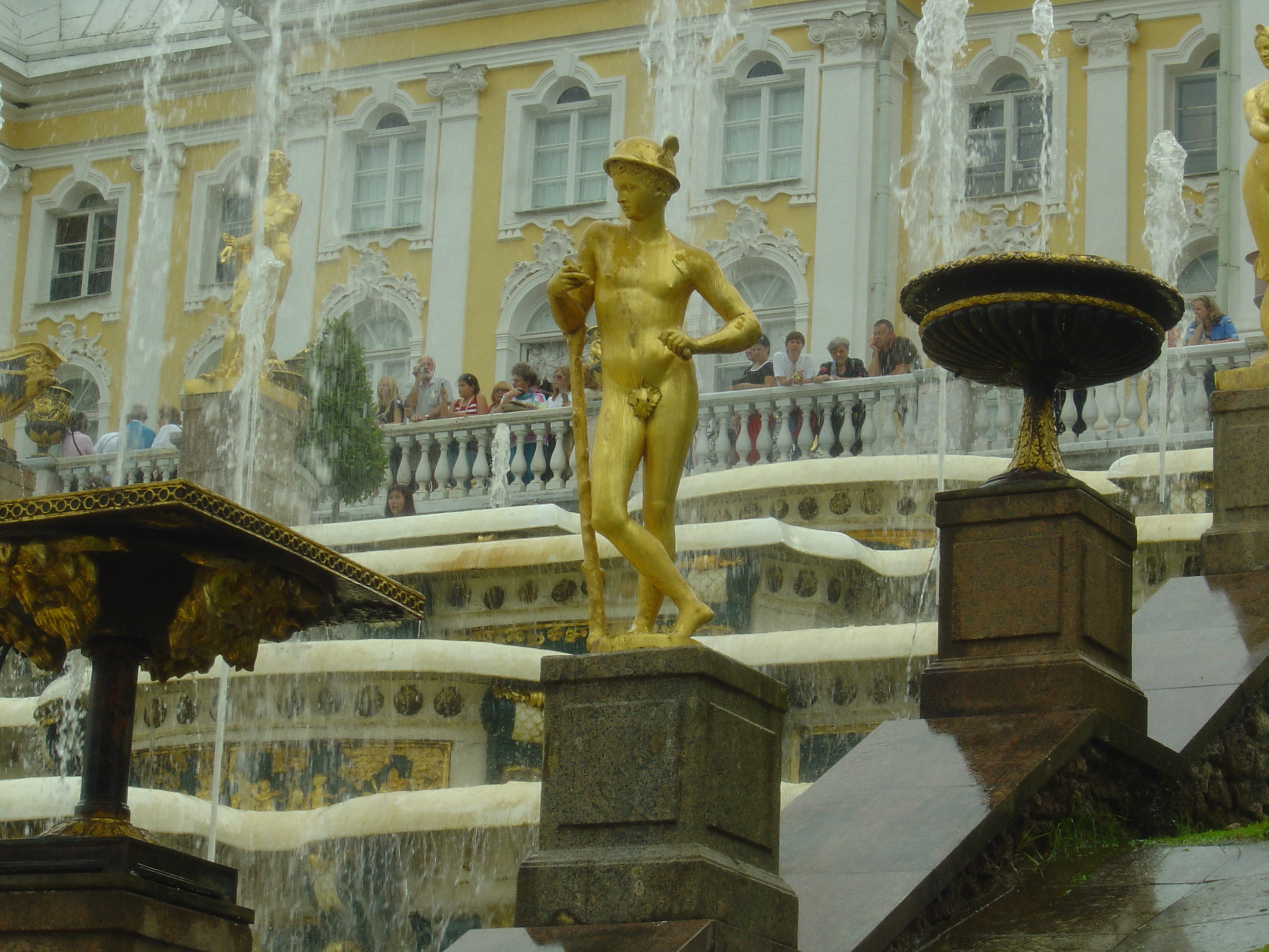 Peterhof Palace